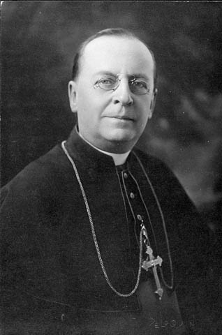 Louis-Joseph-Napoléon-Paul Bruchési, 4th Archbishop of the Roman Catholic archdiocese of Montréal.